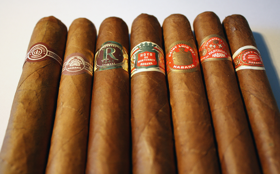 Somes Habanos Cigar - Cuban Cigars